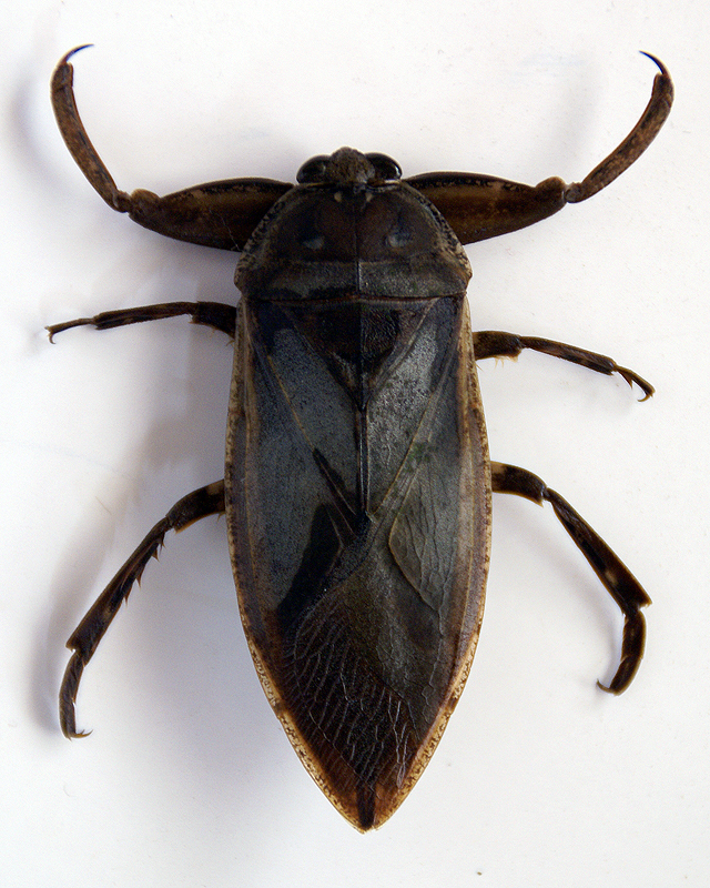 giant water bug